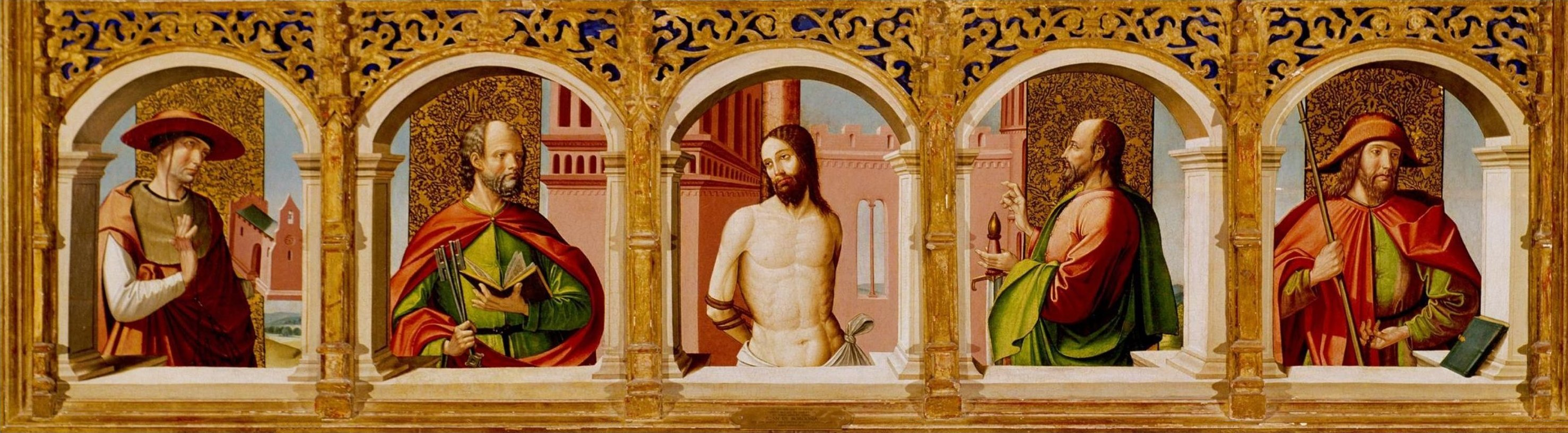 Christ at the Column with Four Saints